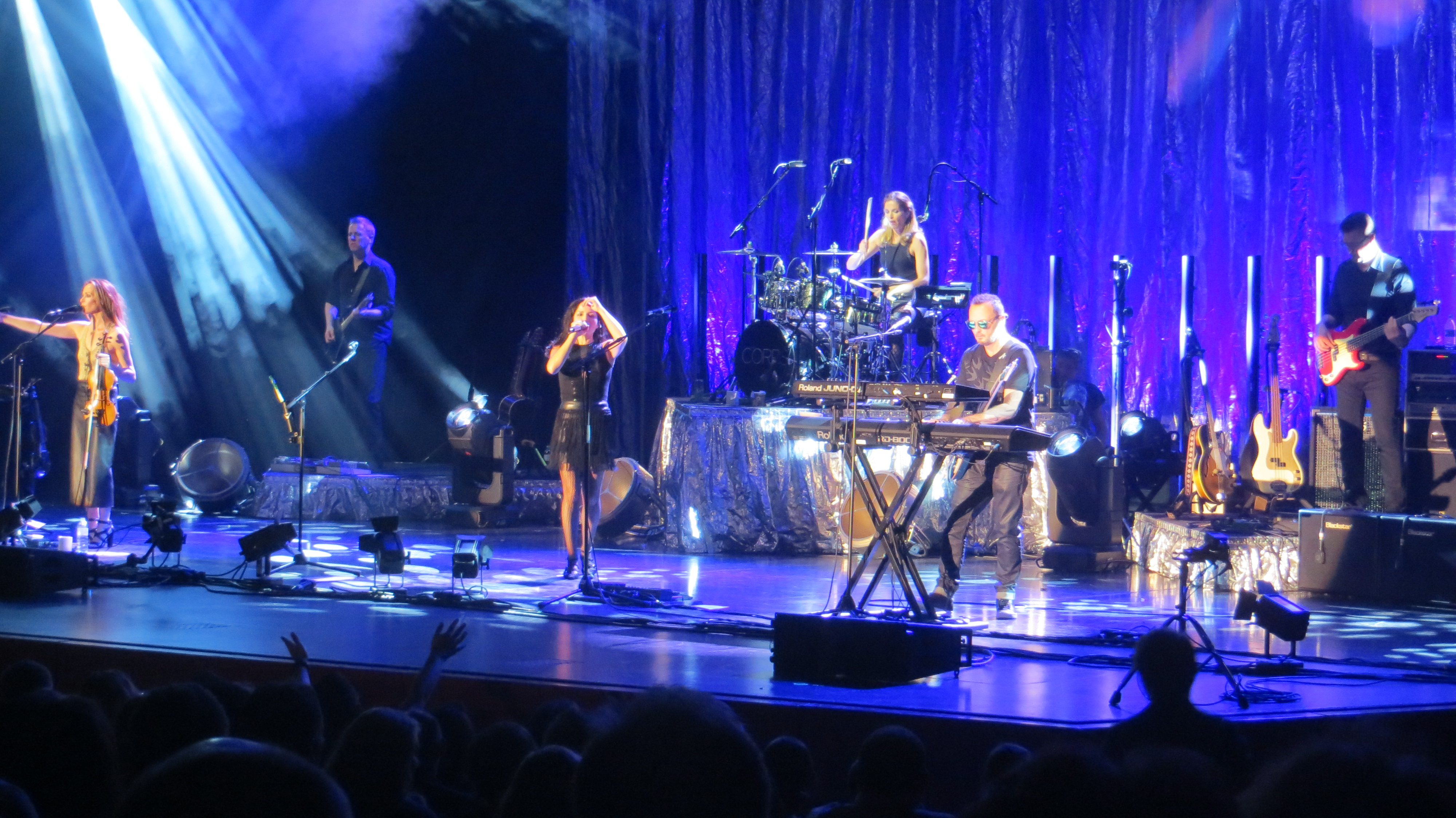 The Corrs in Vienna (Stadthalle, 2016)